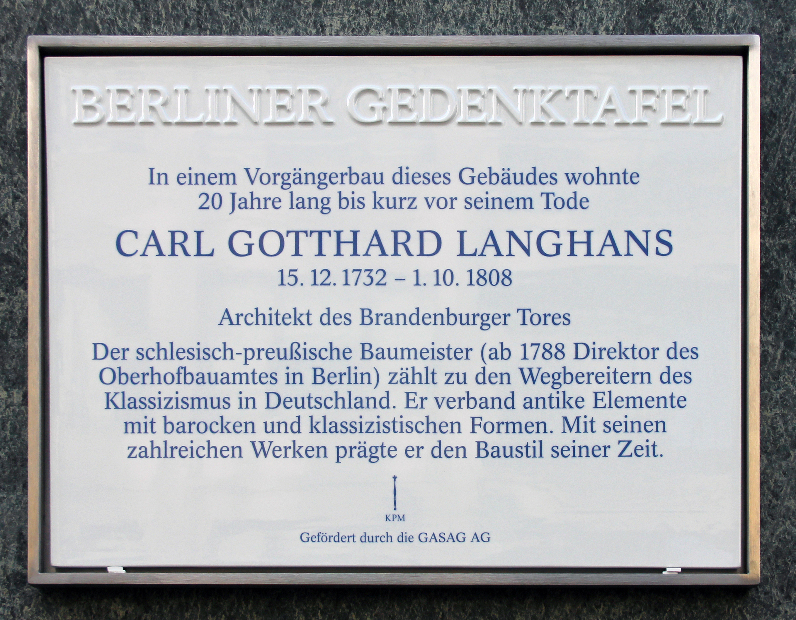 Berlin memorial plaque, Carl Gotthard Langhans, Charlottenstraße 48, Berlin-Mitte, Germany